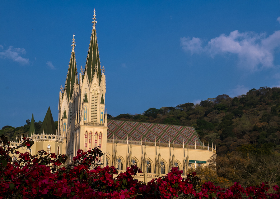 BASILICA NOSSA SENHORA DO ROSARIO - RUA HAVAÍ, 430 PARQUE SANTA INES 07700-000 - CAIEIRAS/SP/BRASIL